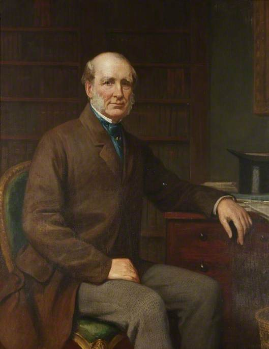 Portrait of Rowland Hill (1800-1875), 2nd Viscount Hill